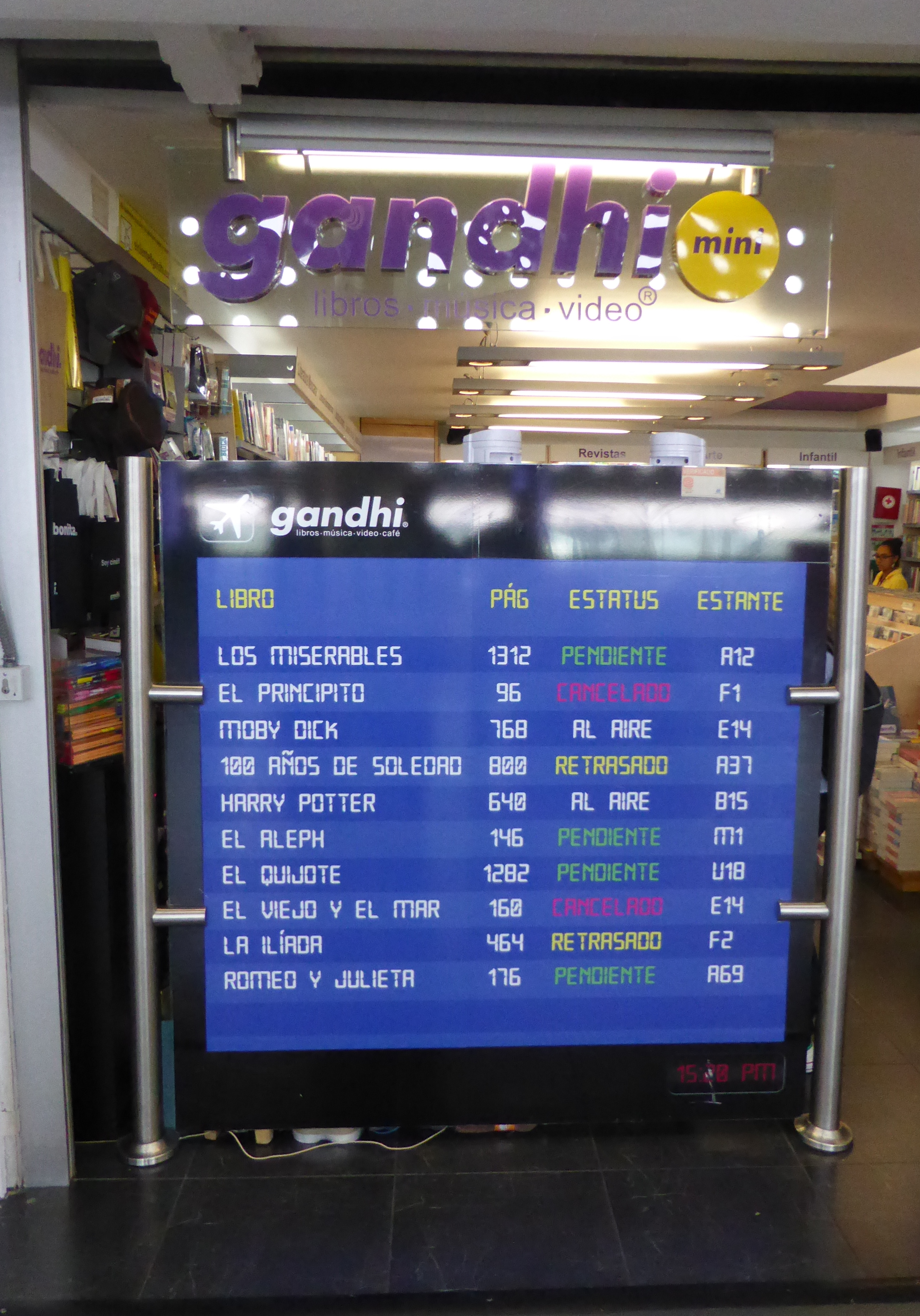 Wikimania 2015, Mexico City